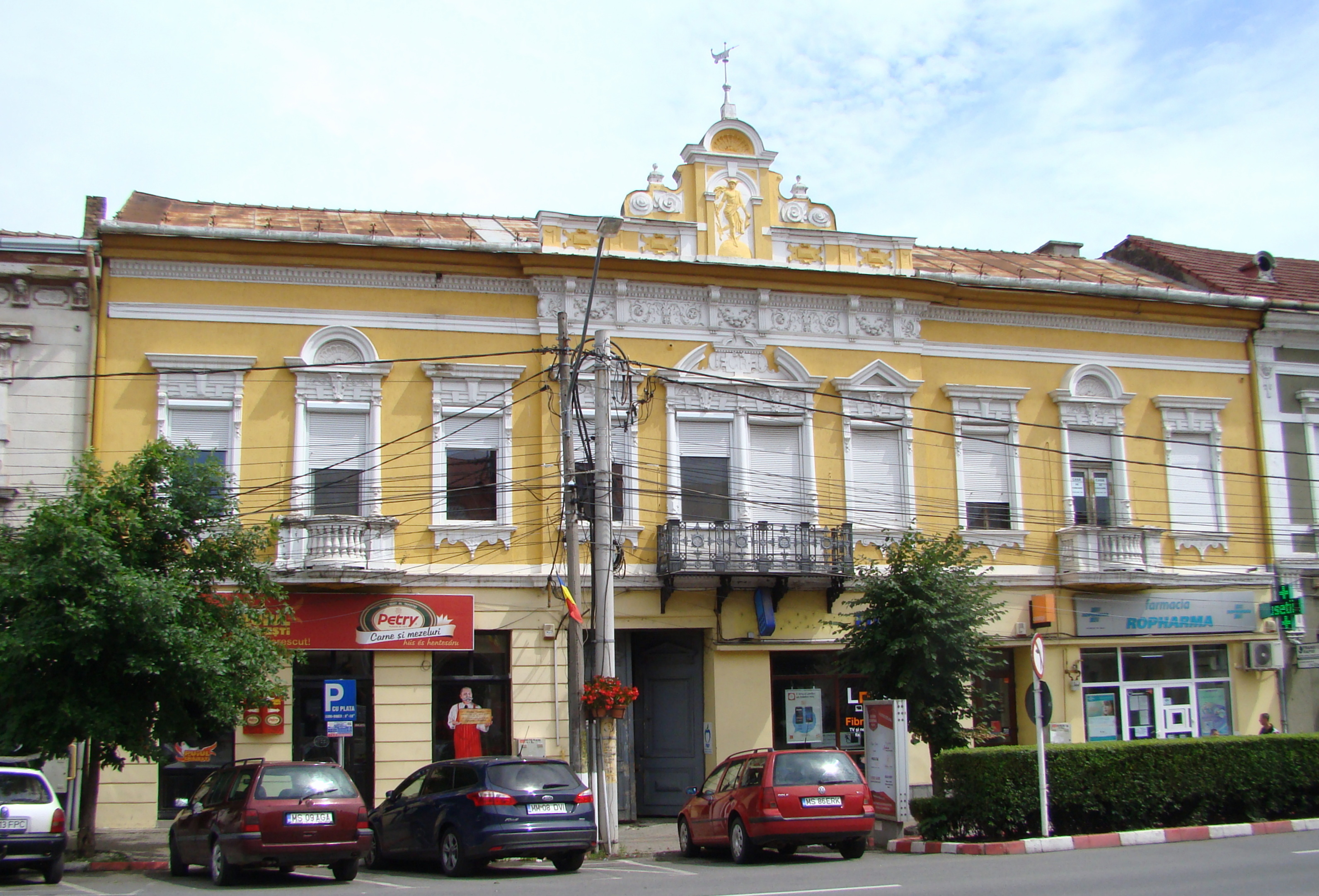 House, historic monument, in Reghin, Petru Maior square, nr. 55